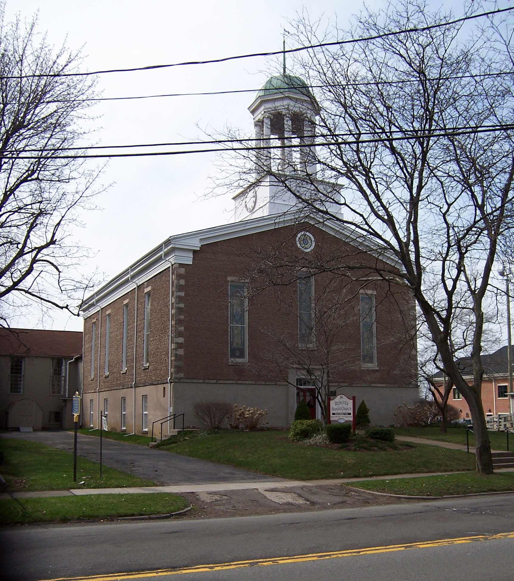 The Webster Baptist Church in the village of Webster, New York. New York State Route 250 is in the foreground.